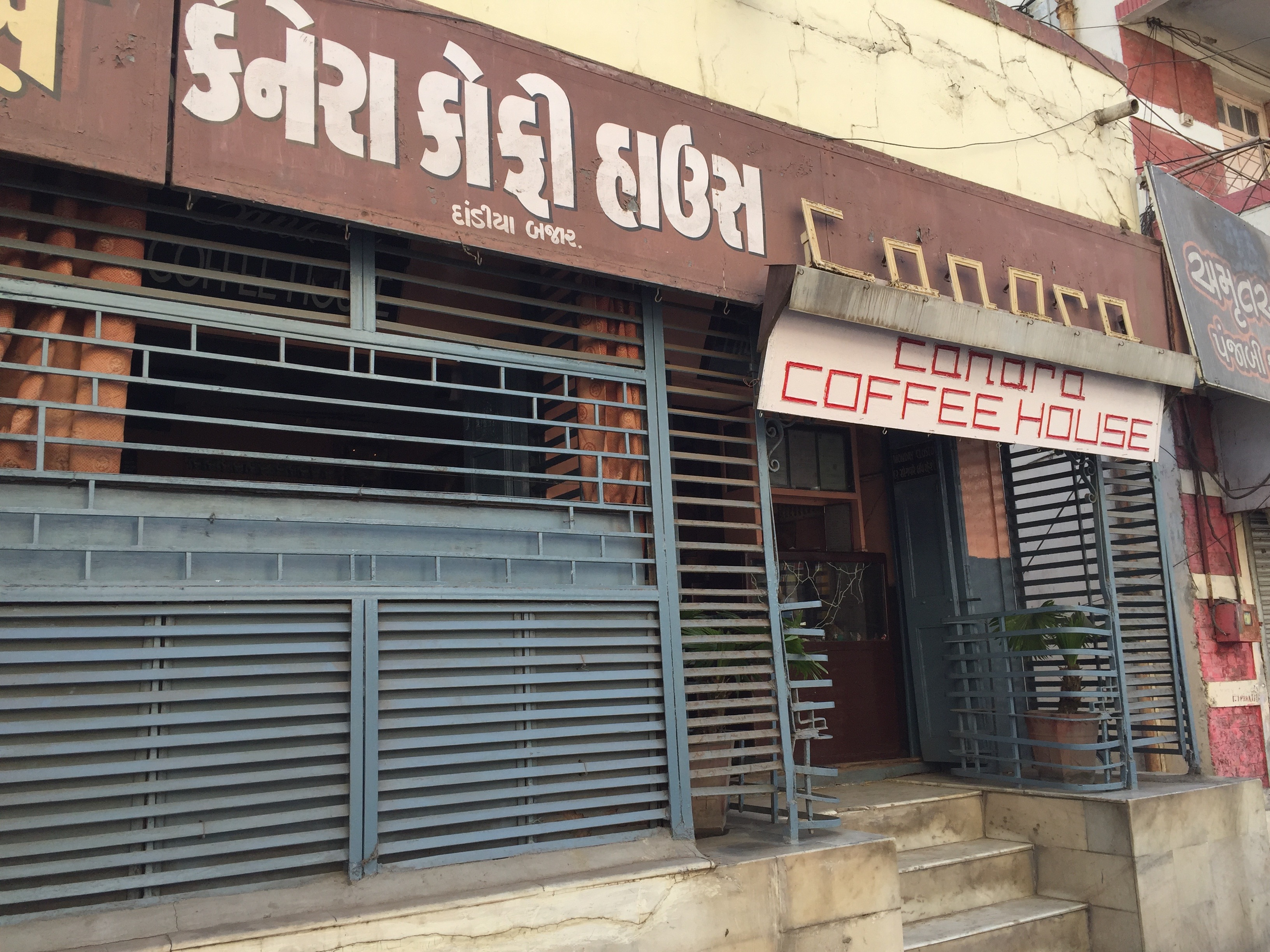 Front view of the Canara Coffee House Vadodara